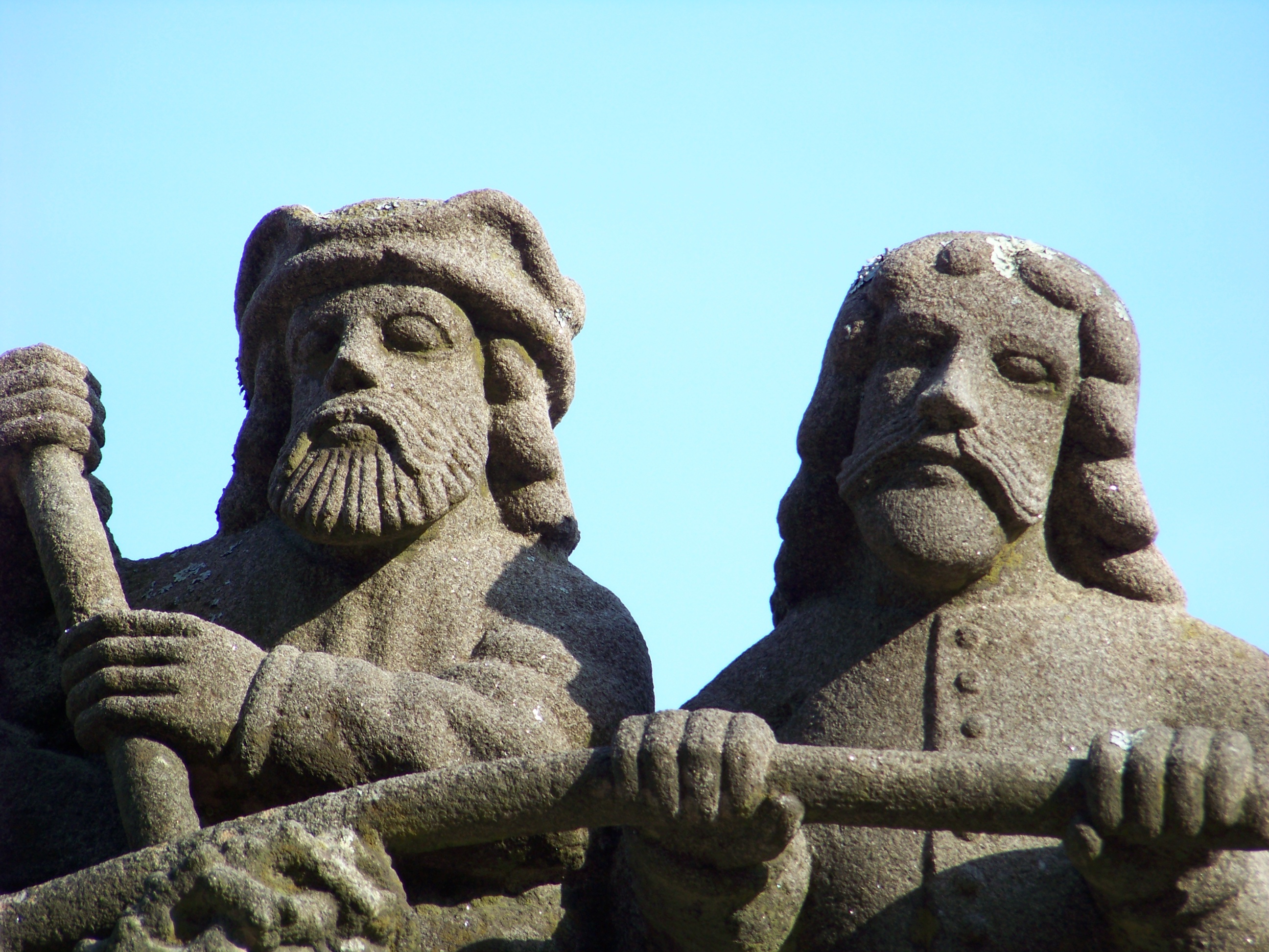 The Last Judgement, The calvary, Plougastell Daoulaz, Finistere, Brittany .